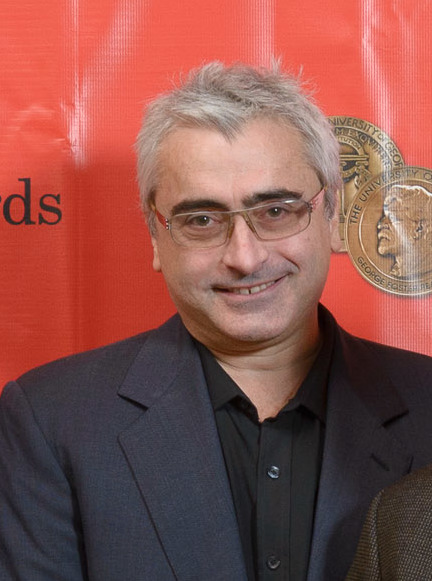 Lori Singer, Jedd Wider, Todd Wider, Alex Gibney, Alexandra Johnes, Sloane Klevin and Kristen Vaurio at the 73rd Annual Peabody Awards for "Mea Maxima Culpa."